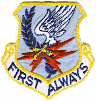 4239th Strategic Wing emblem. A copy of this emblem was downloaded from for use in my book “The Genealogy of the STRATEGIC AIR COMMAND” with the webmasters’ approval.